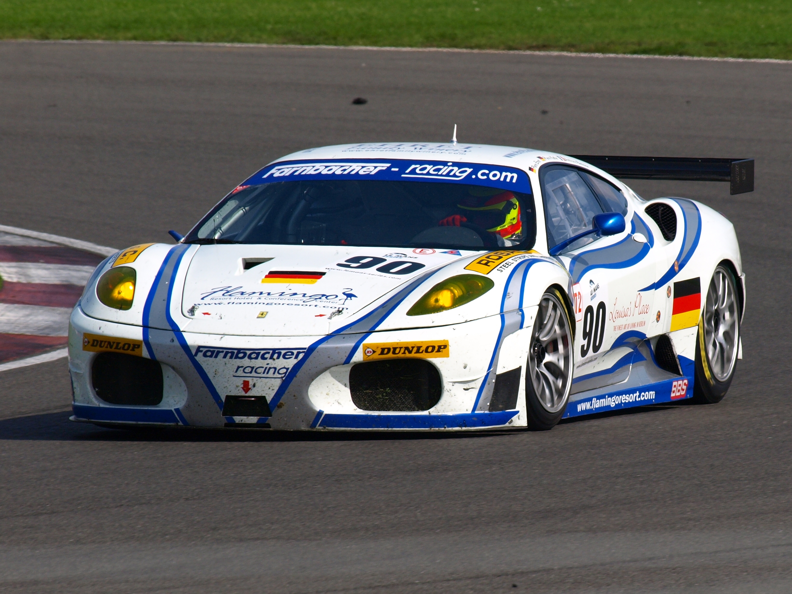 Pierre Kaffer driving Farnbacher Racing's Ferrari F430 GTC at the 2008 1000km of Silverstone.